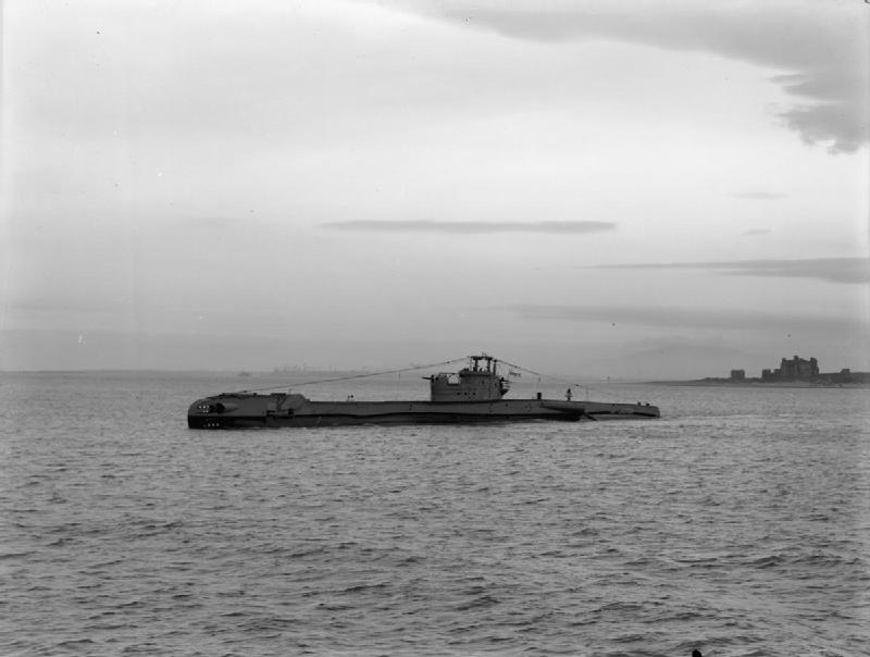 British T class submarine HMSM TEREDO underway.